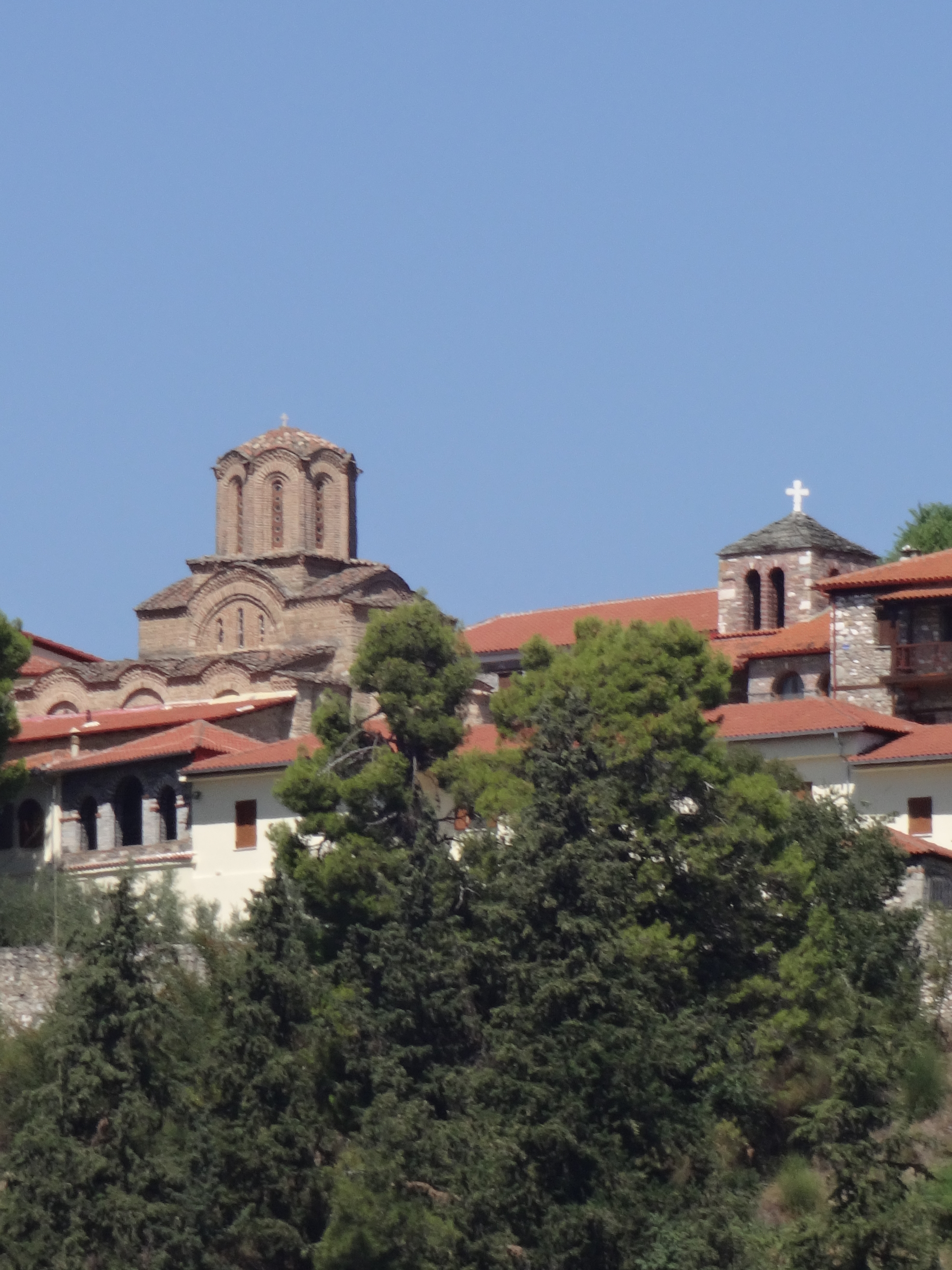 Elassona, Greece. Monastery of Madonna Olympiotissa